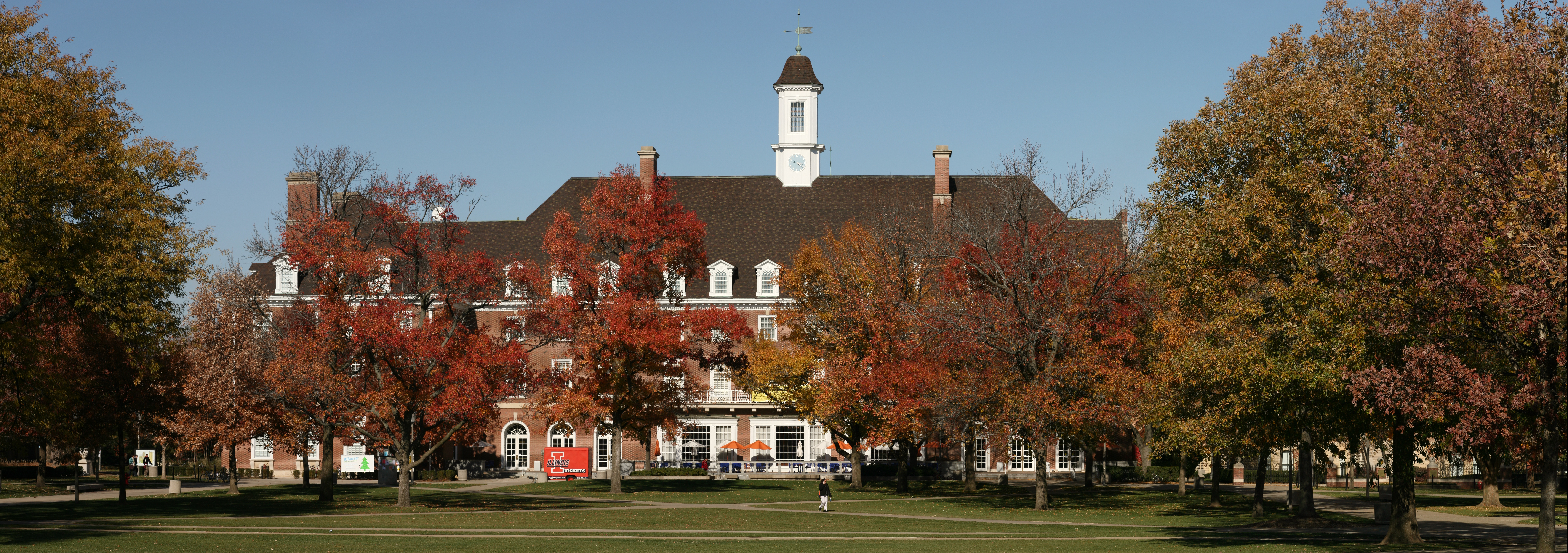 University of Illinois at Urbana-Champaign, main campus (Quad) with the Illini Union building in the background. This image was created with Hugin.